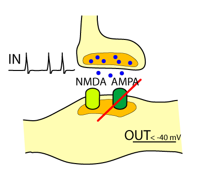 Silent synapse in early developing hippocampus